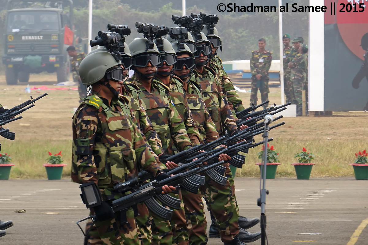 Modular Infantry: Bangladesh Army